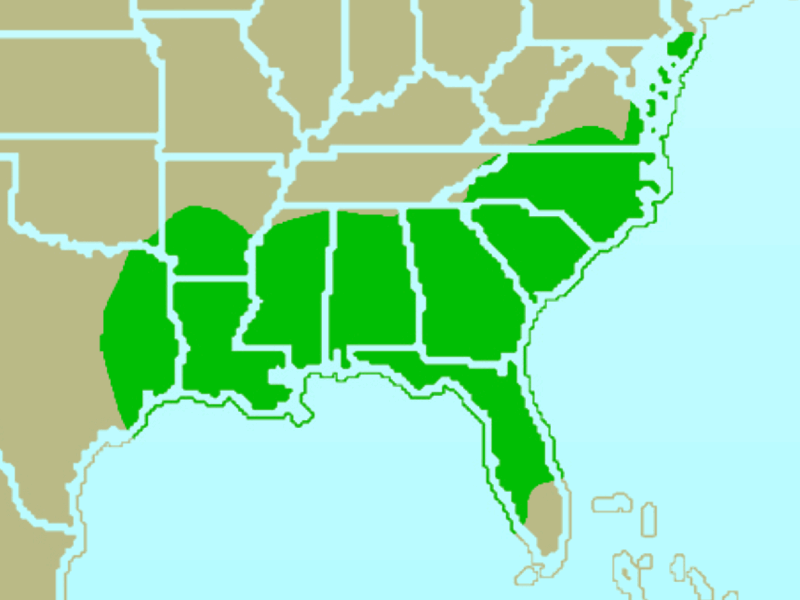 Approximate range/distribution map of the Brown-headed Nuthatch (Sitta pusilla). In keeping with WikiProject Birds guidelines, yellow indicates the summer-only range, blue indicates the winter-only range, and green indicates the year-round range of the species.